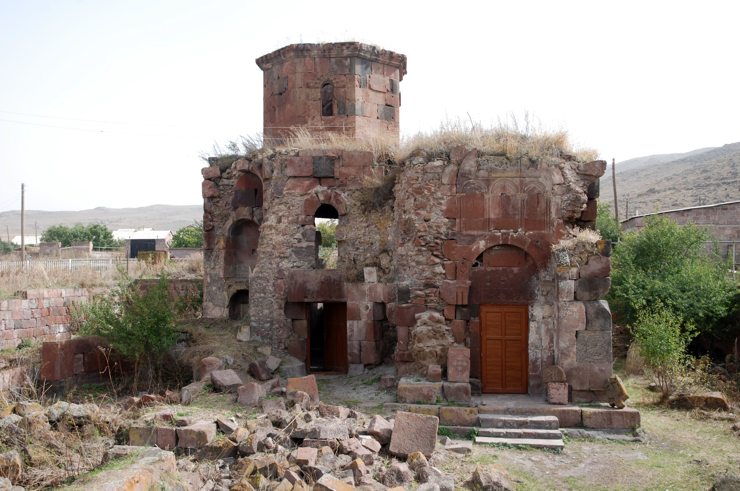 Pemzashen, three churches in village